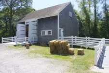 Rehoboth Antiquarian Society/Carpenter Museum Barn photo. Color picture of Carpenter Museum Barn , 4 Locust Avenue, Rehoboth, MA